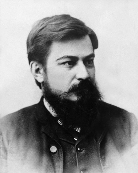 Portrait of Serbian politician and author Andra Nikolić